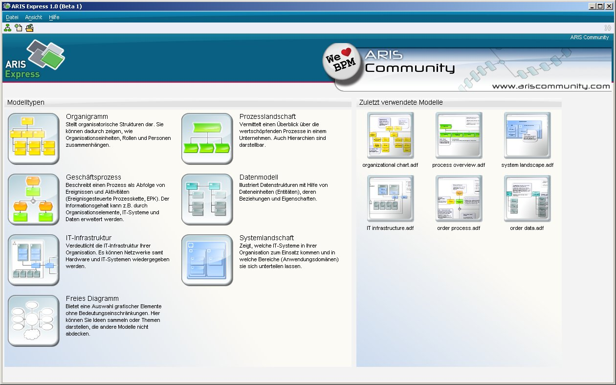 Screenshot ARIS Express start screen (German user interface version)